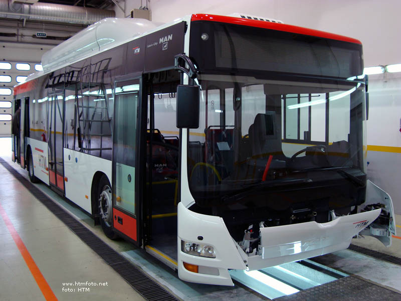 Outside view of the new MAN Lion's City CNG city buses, they will enter the The Hague roads as quick as possible.